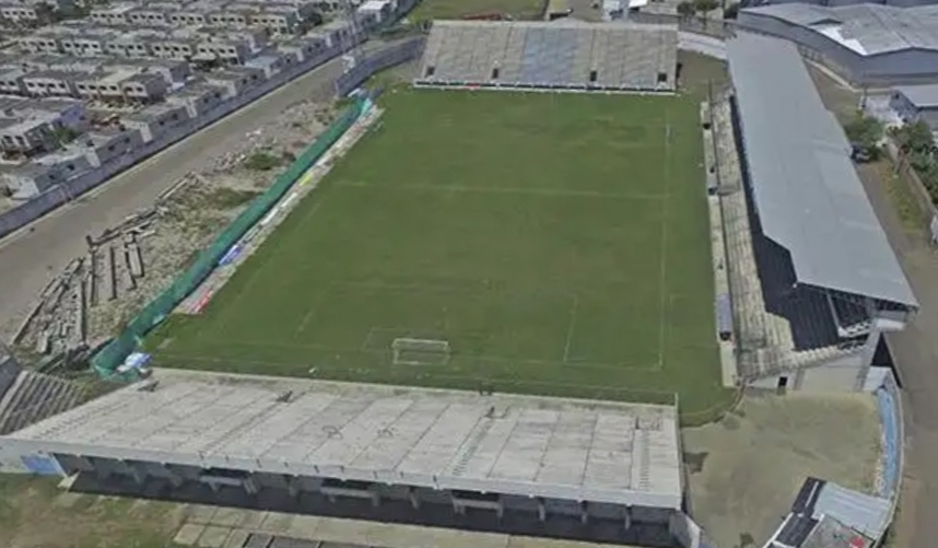 This stad